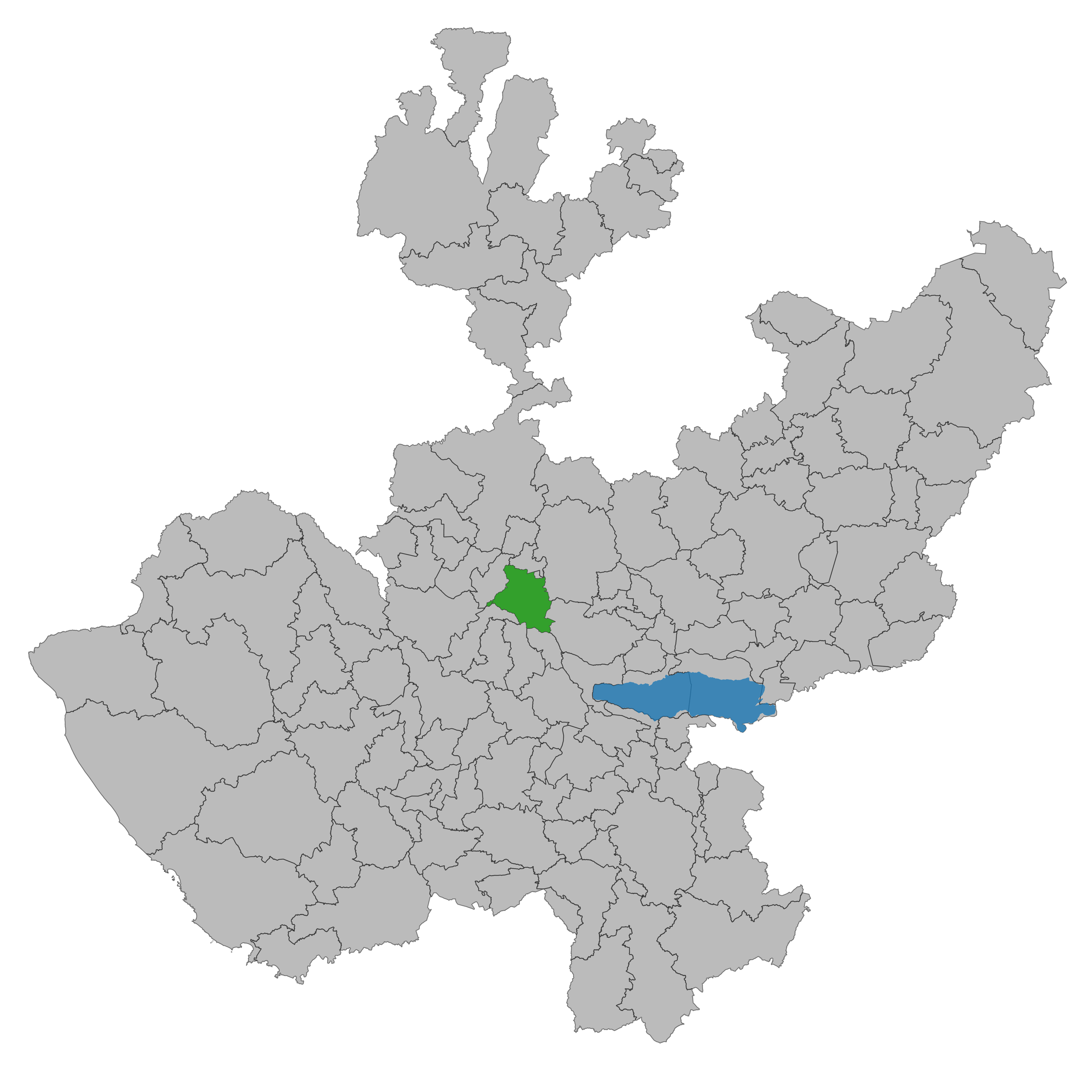 Municipality of Jalisco. Prepared with the software QGIS version 2.8.2 Wien & with information of SCINCE 2010 version 05/2013